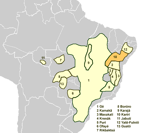 Karirí-Xocóan languages (orange), (probable spread area at the time of contact) Source: Ribeiro, Eduardo & Van der Voort, Hein (2010) “Nimuendajú was right: The inclusion of the Jabuti language family in the Macro-Jê stock”, International Journal of American Linguistics, 76/4.